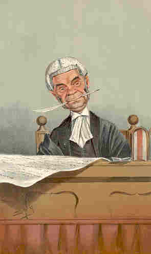 Judges No.61: Caricature of The Hon Mr Justice HH Cozens-Hardy. Caption reads: "fair, if not beautiful"